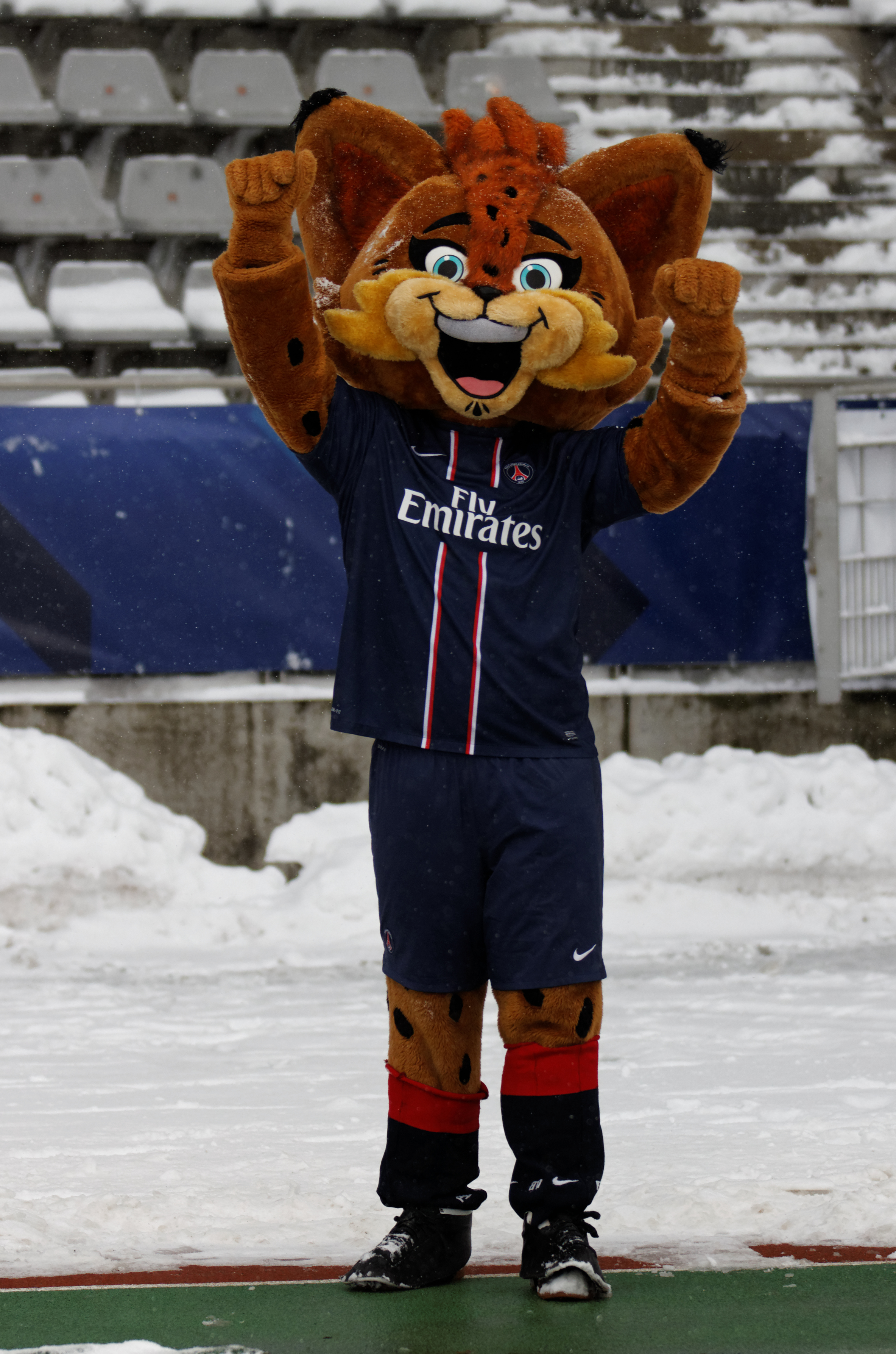 PSG-Toulouse, January 20th, 2013. Germain the lynx, mascot of PSG.